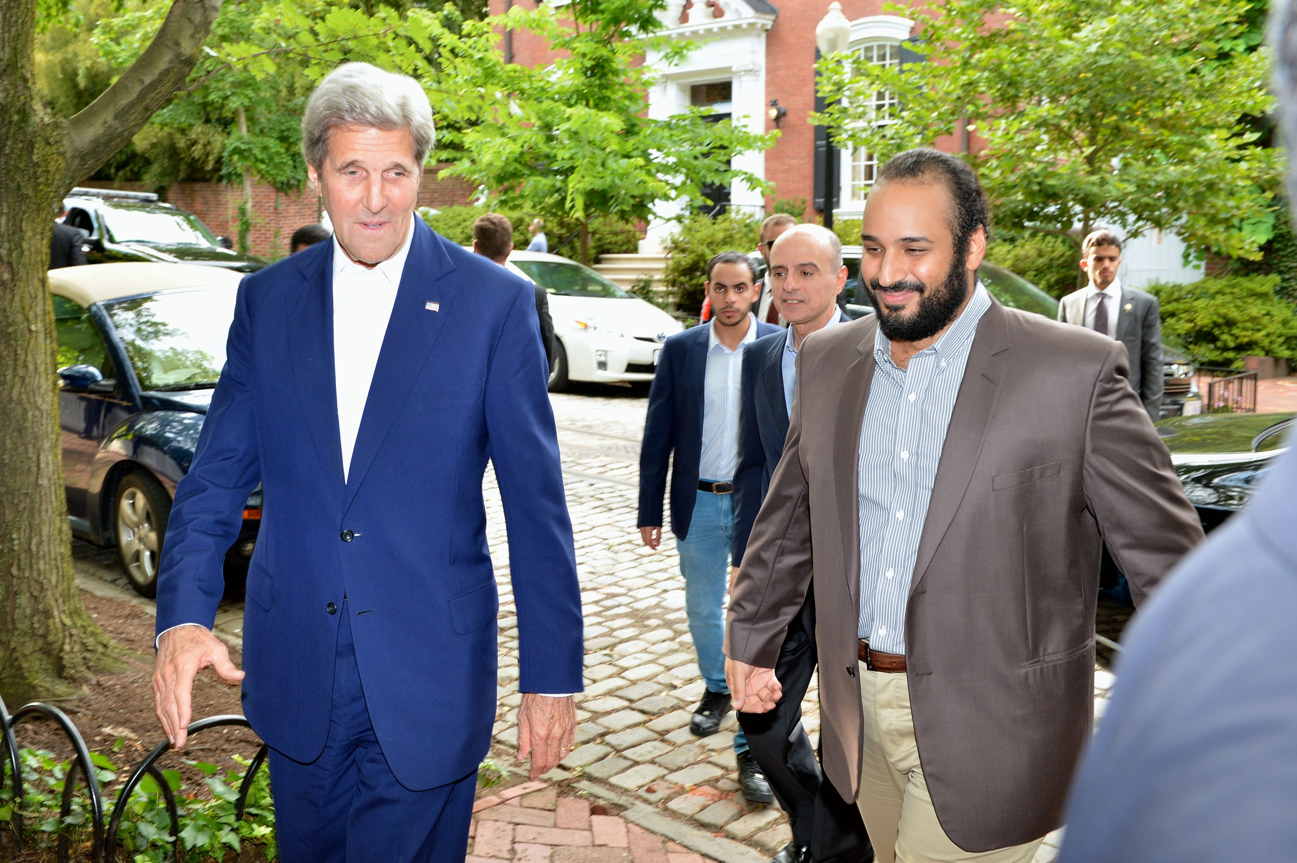 U.S. Secretary of State John Kerry and Saudi Deputy Crown Prince Mohammed bin Salman and Saudi Foreign Minister Adel al-Jubeir prepare for their meeting followed by an iftar dinner in Washington, D.C., on June 13, 2016.